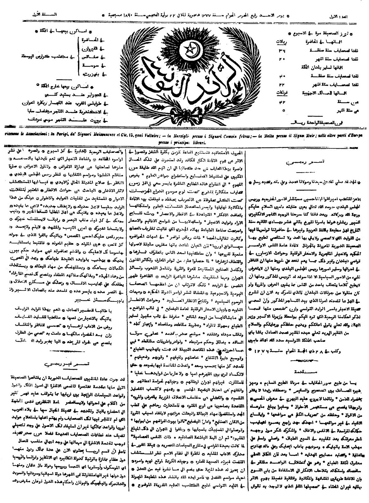 First page of the first issue of Raed Tounsi Journal, issued on 22 July 1860